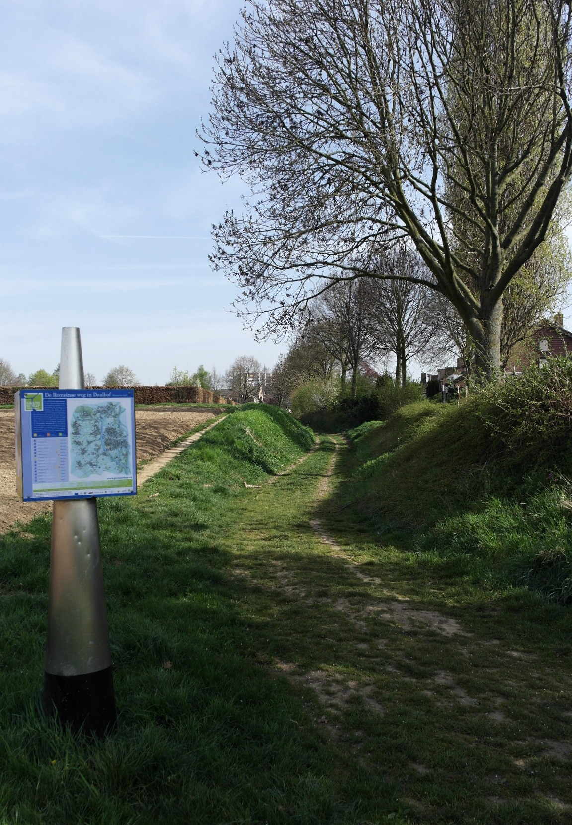 Maastricht, the Netherlands. View of Romeinsebaan in the southwestern neighbourhood of Daalhof. Archaeological finds indicate that Romeinsebaan ("Roman track") was once part of the Roman road from Boulogne-sur-Mer via Maastricht to Cologne.